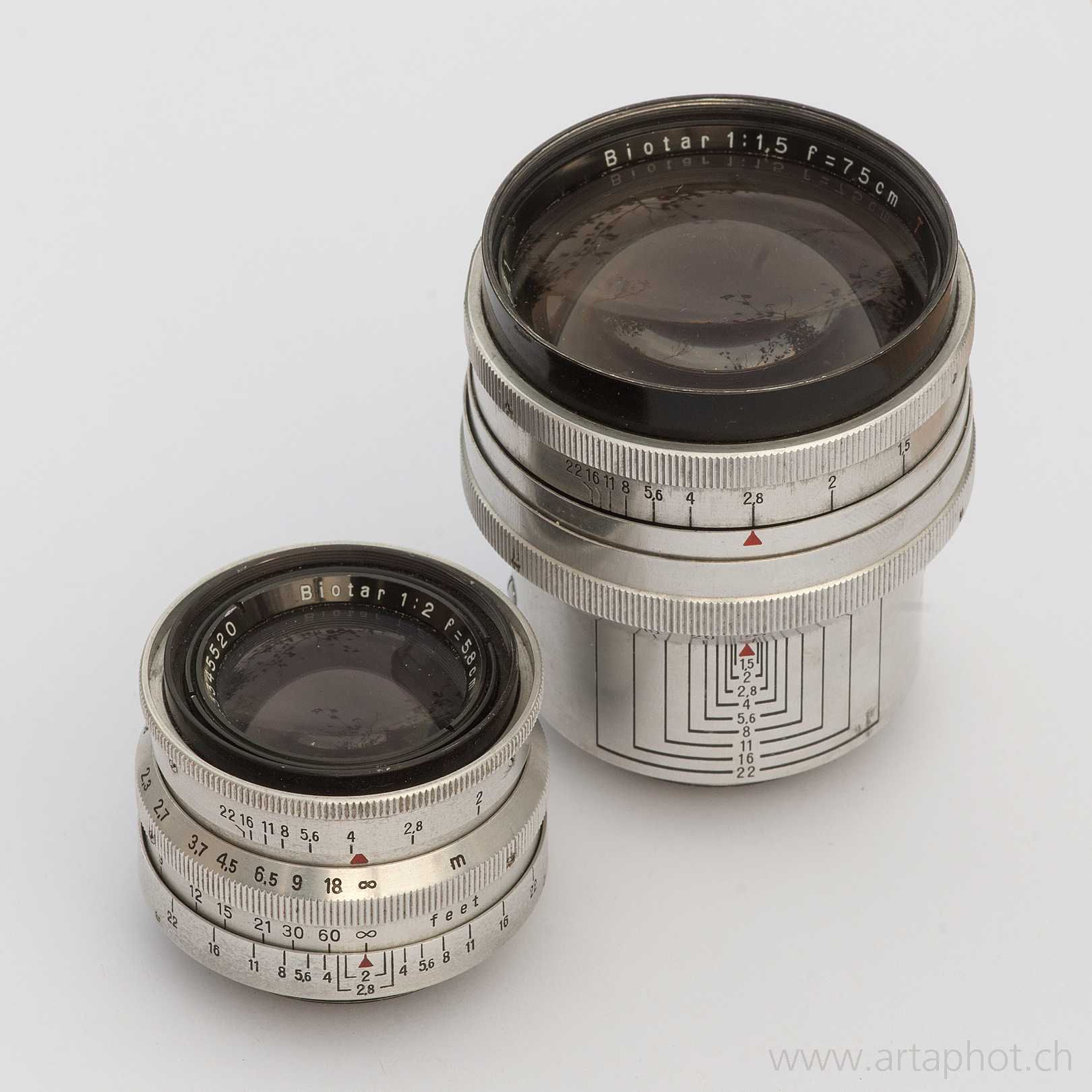 Carl Zeiss Jena Biotar 5.8 cm 1:2 and Carl Zeiss Jena Biotar 7.5 cm 1:1.5